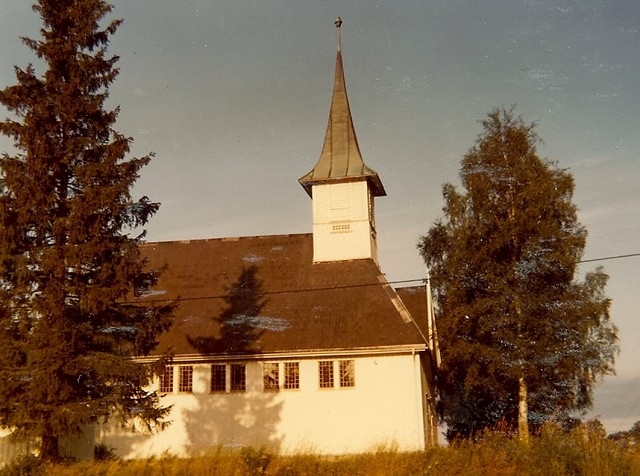 Dalen church